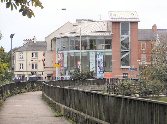 Omagh Community House